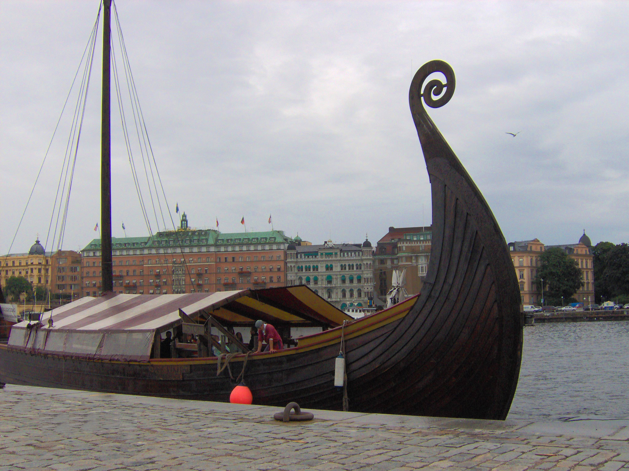 Drakkar in Stockholm